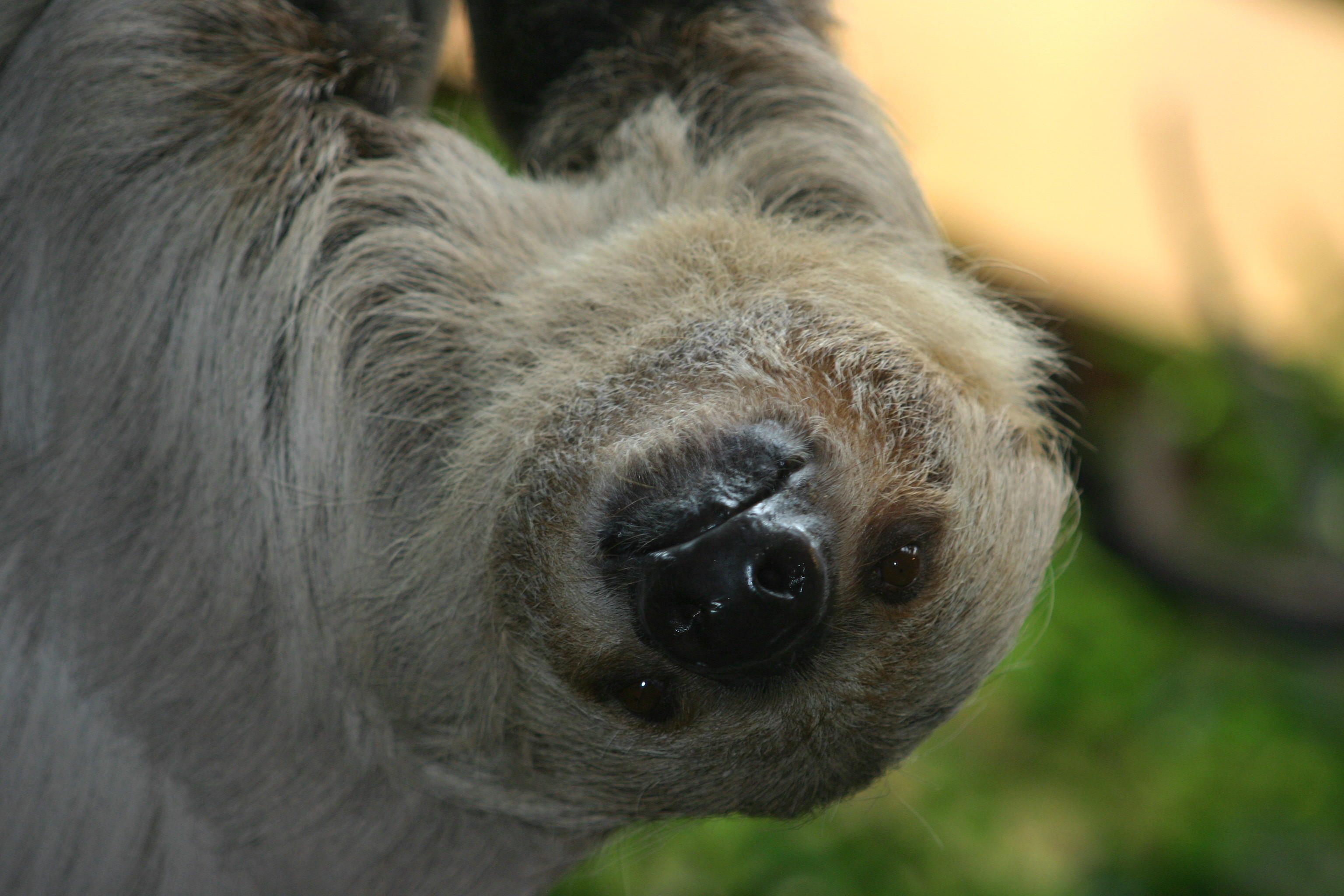 Choloepus didactylus